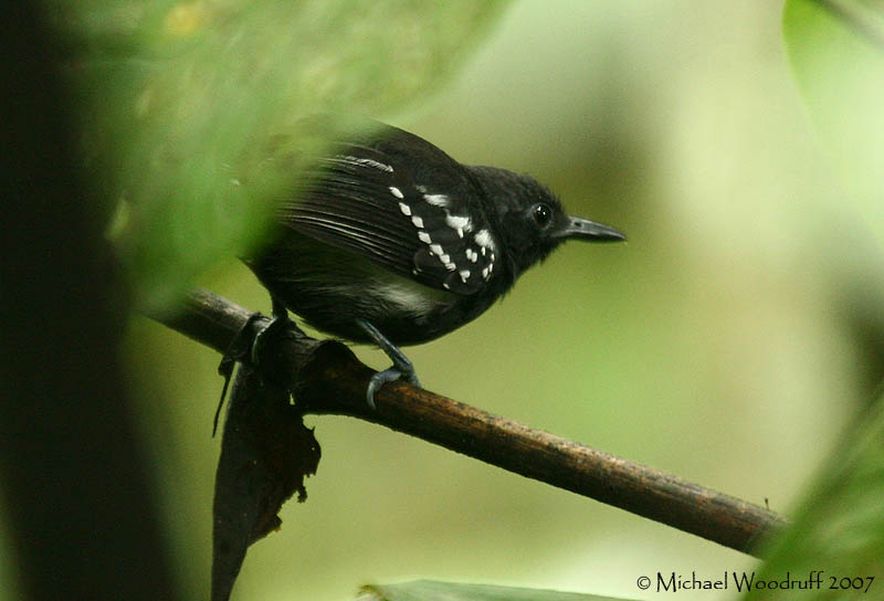 White-flanked Antwren (Myrmotherula axillaris), Rio Silanche (PVM), NW Ecuador 3/9/2007